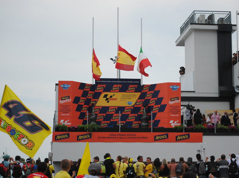 MotoGP podium 2010 Misano